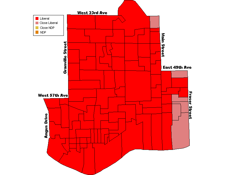 The colour shown for each voting area corresponds to the dominate party in that area (received most votes).